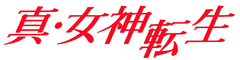 Shin Megami Tensei's Japanese logotype